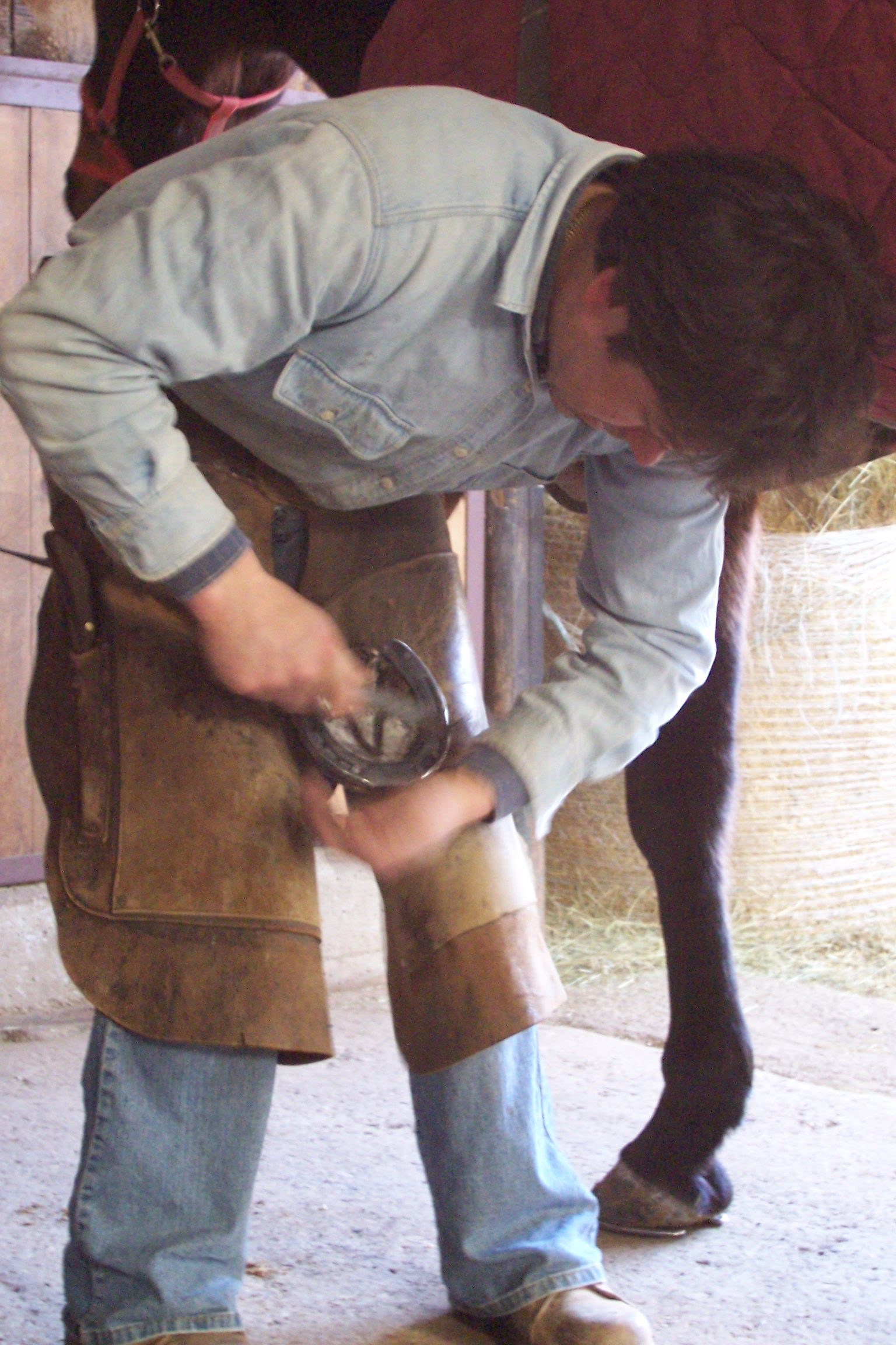 An italian farrier at work